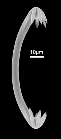 Anchorate isochelae from Chondrocladia (Meliiderma) turbiformis, holotype NIWA 21357, from Pyre Seamount, Chatham Rise, 1075 m.